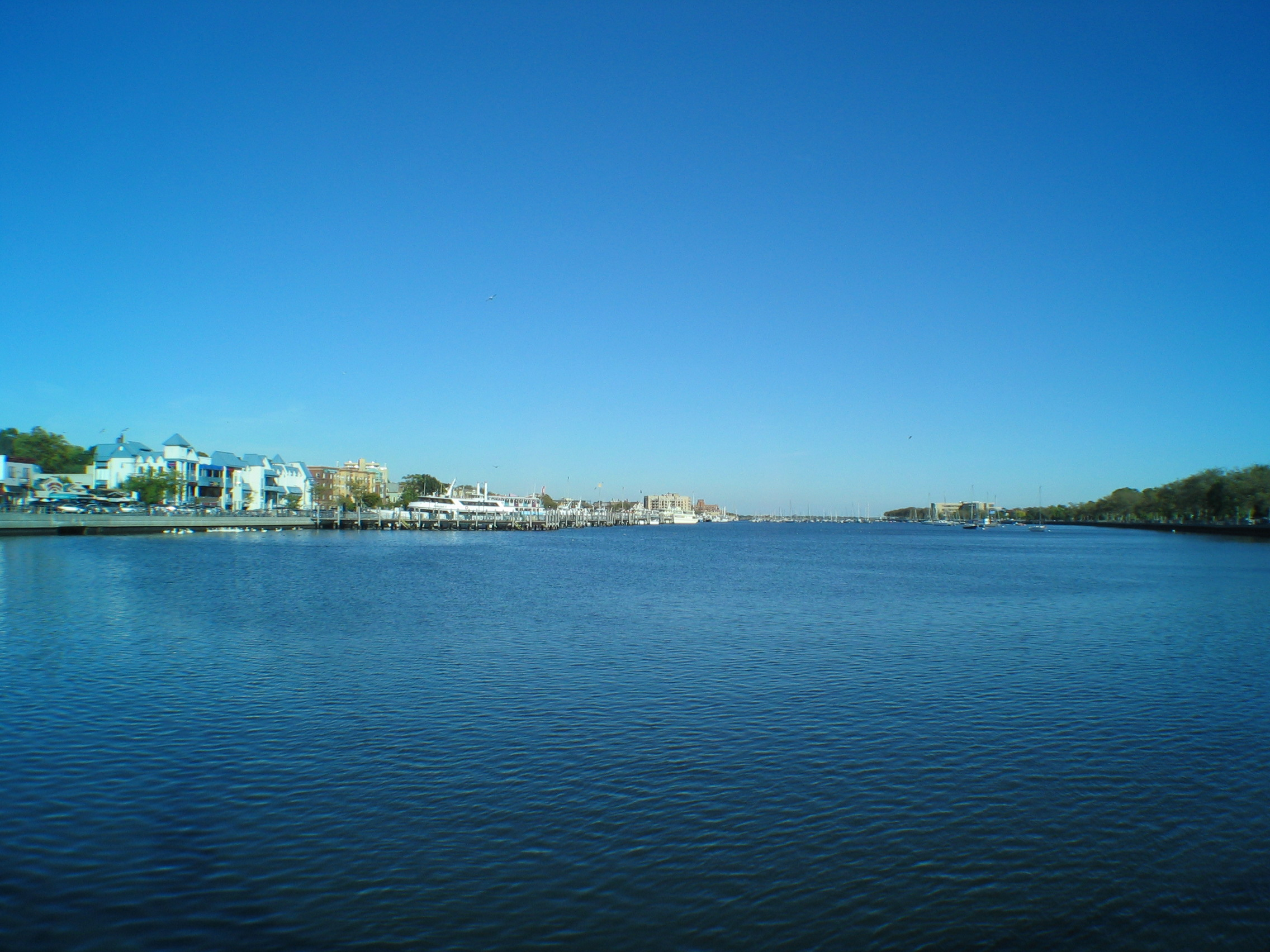 This is a view of Sheepshead bay as seen from its Bridge. Lined along the left hand side, you can see a series of piers with various fishing and party boats. This is the side of the Sheepshead Bay. Along the right is Manhattan beach.